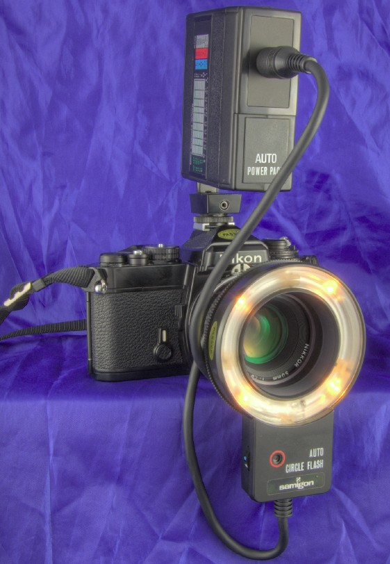 Three-exposure tone-mapped HDR (EV0, EV-2, EV+2). Image was made in a photo tent, with front flap installed. Lit by a 5000k color temperature (daylight) 55-watt compact fluorescent bulb in a metal reflector on each side, positioned quite close to the photo tent. That's 55 actual watts, not watts equiv. They're approximately comparable to 240 watt incandescent bulbs. Even with this much light, it was very necessary to use a tripod, due to the selection of base ISO for low noise, a small lens aperture for greater depth of field and two extra stops of exposure for the +2 part of the HDR set. A white card was used in the tent to take a white balance reading, and that preset value was used for all shots made in the tent. Colors are always right on this way.